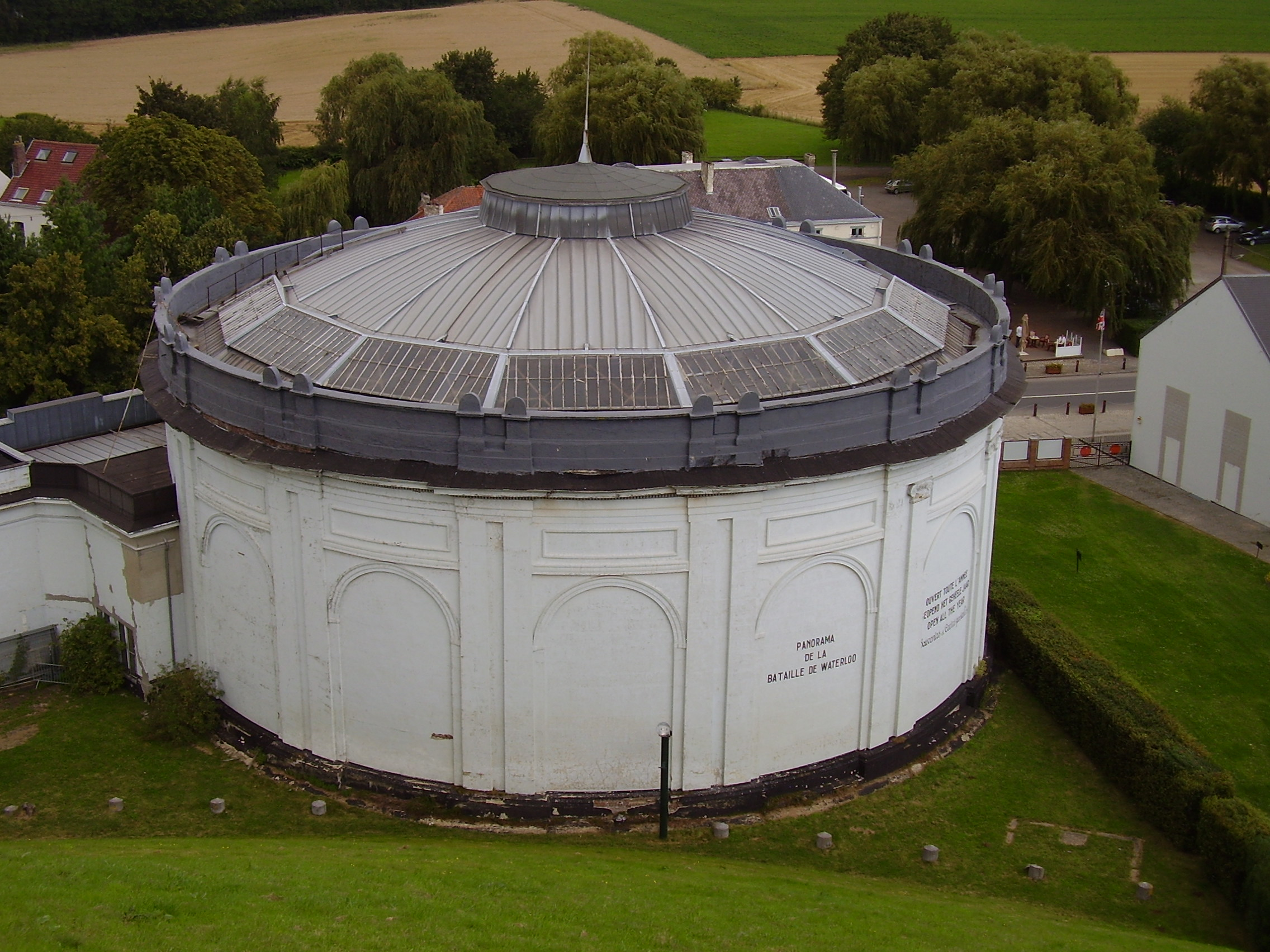 panorama-museum - seen from the Waterloo-hill